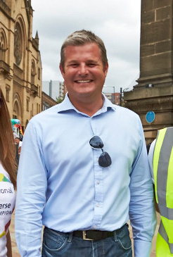 Stuart Andrew, Conservative MP for West Yorkshire